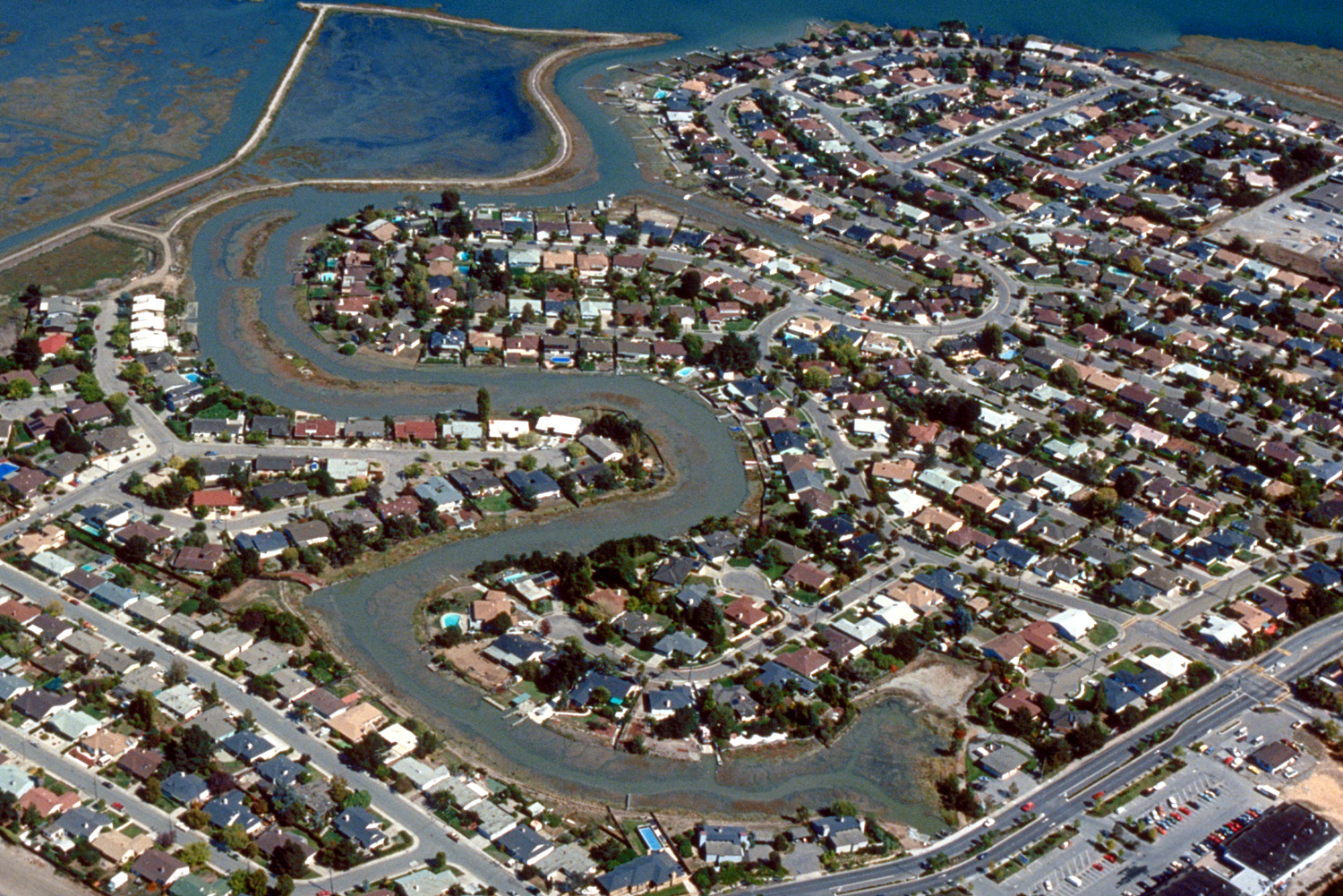 Aerial view of the Meadowsweet area of Corte Madera, California, USA. The city lies on the western side of upper San Francisco Bay. San Clemente Creek winds through the neighborhood. Paradise Drive is visible at the bottom of the picture. View is to the northeast. Coordinates: 37°55′20.21″N 122°30′14.16″W / 37.9222806°N 122.5039333°W